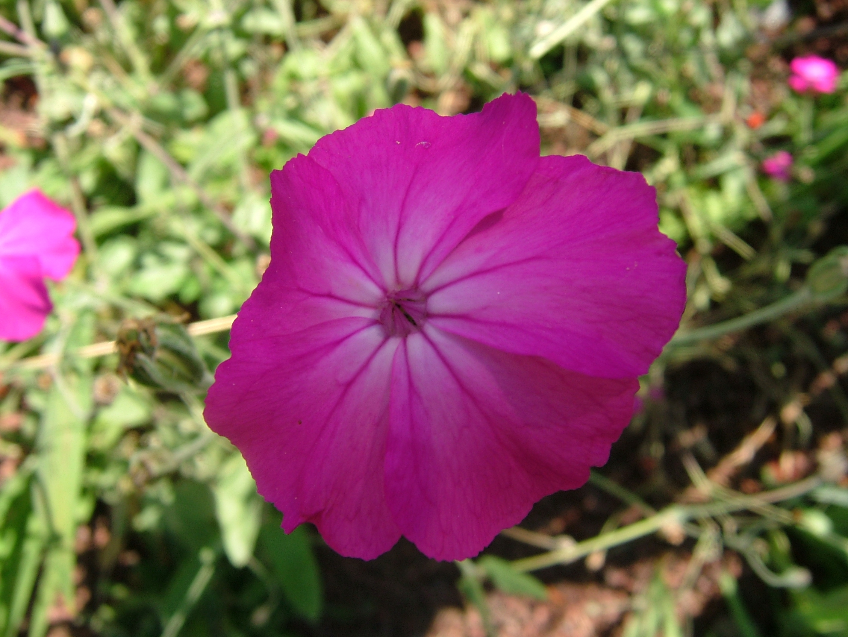 Botanical Garden Meran Sun gardens Silene coronaria